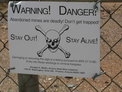 Abandoned mines sign. I think the sign is in more danger than the old copper mine in Jerome, Arizona.